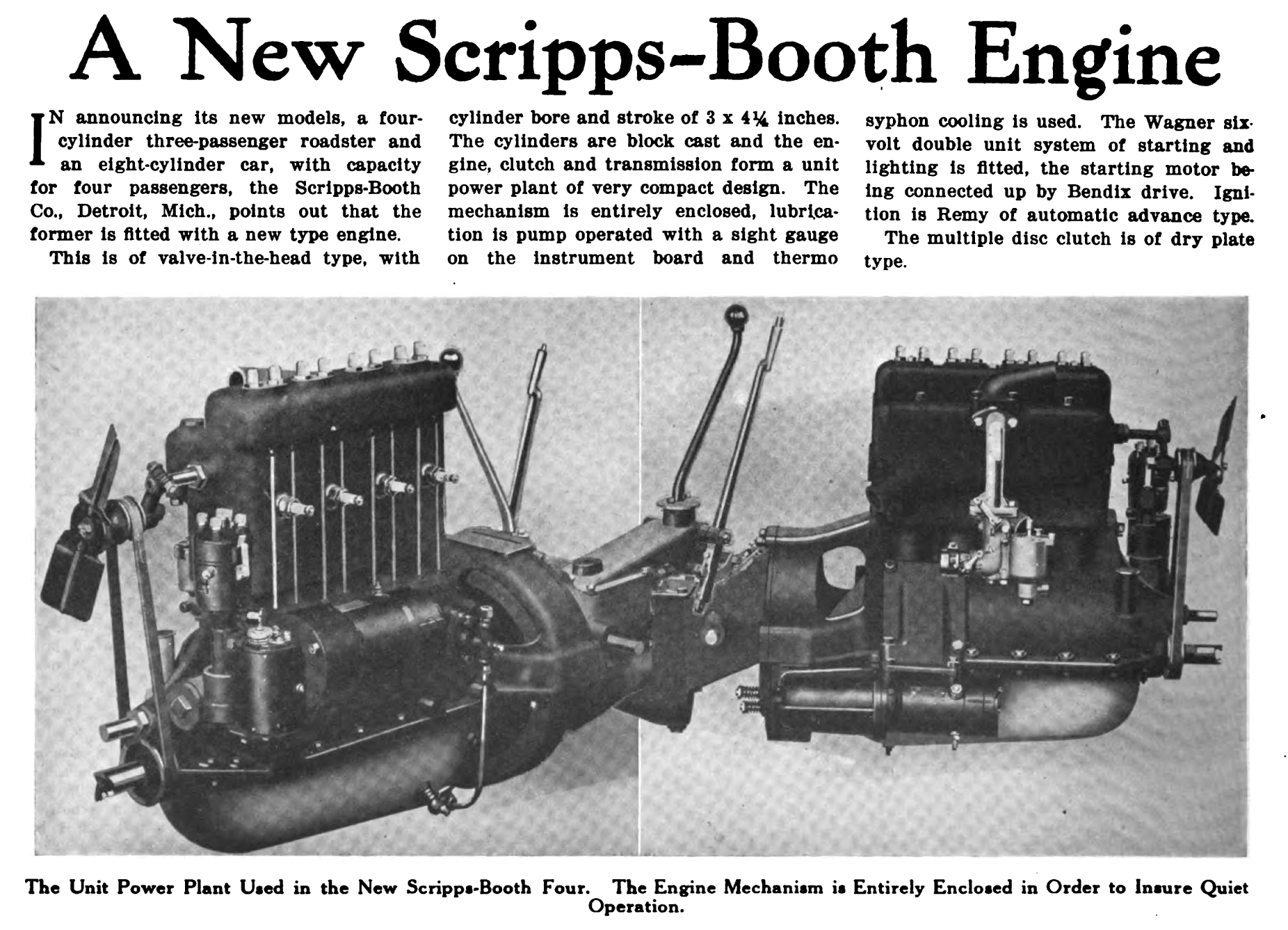 A new Scripps-Booth engine described in the journal Horseless Age, April 15, 1916, volume 37, number 8, page 330.